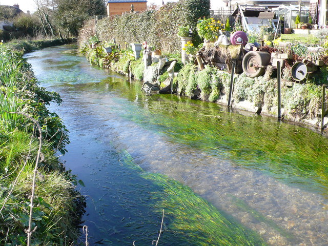 Sydling Water A fine collection of gnomes and other trivia on the banks of the stream that flows through the village of Sydling St Nicholas